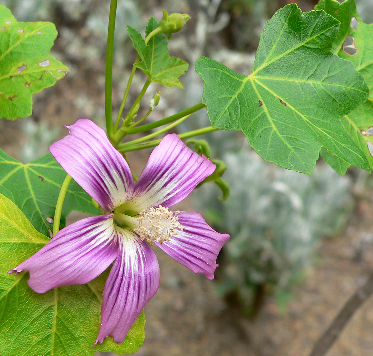 Malva assurgentiflora (syn: Lavatera assurgentiflora) — Island Mallow, Island Tree Mallow. Endemic species of the Channel Islands in Southern California. Specimen at the University of California Botanical Garden in the Berkeley Hills.